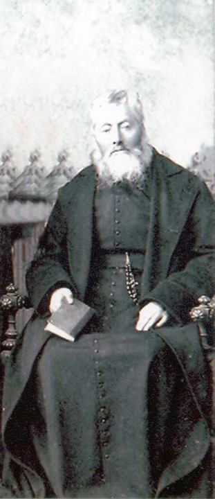 Father Peter Karishiaranti, (Pétre Kharistshirashvili, Petre Kharischirashvili) b. 1804- d. 1892. Founder of Georgian Catholic Monastery of Constantinople.